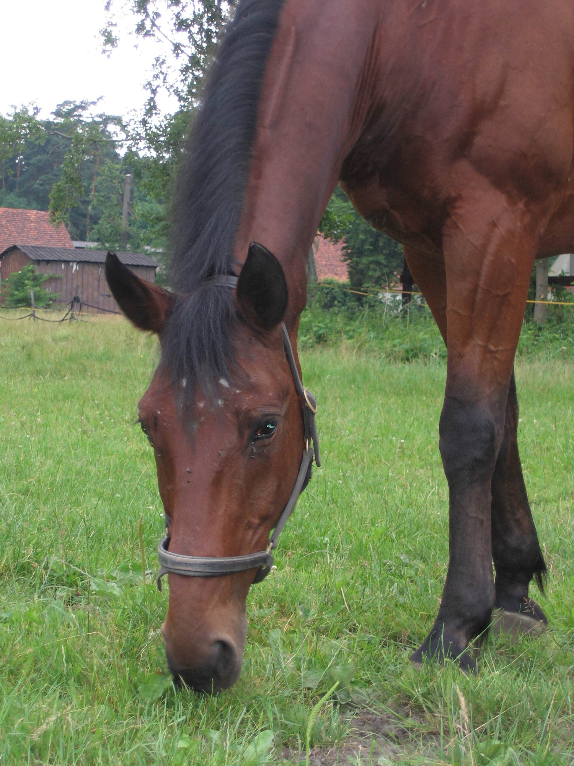 Head of Furioso-Przedsiwt Polish breed horse